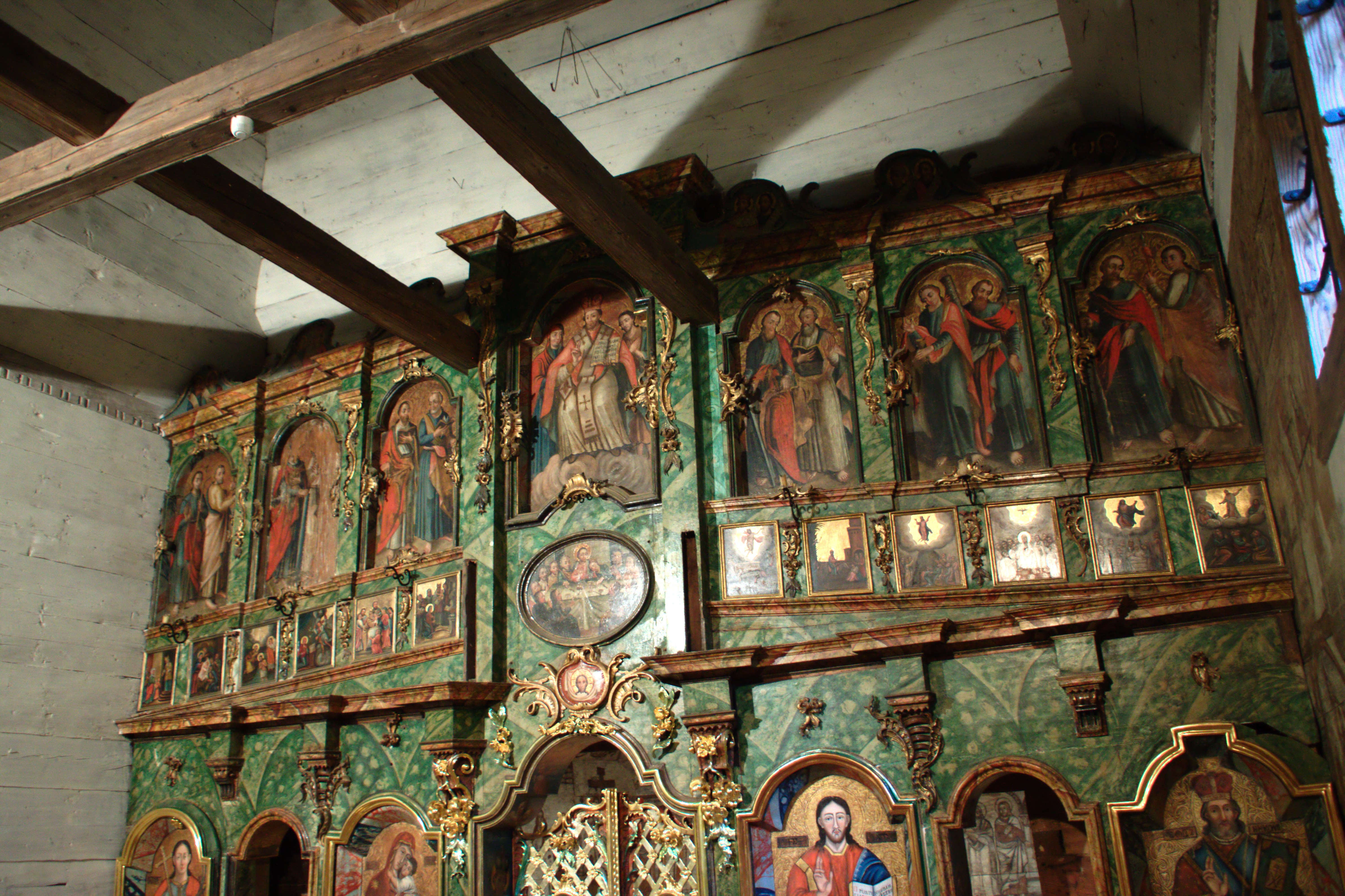 First level of the iconostatis in the Grąziowa church, currently located at the Sanok skansen, Podkarpackie voivodeship, Poland